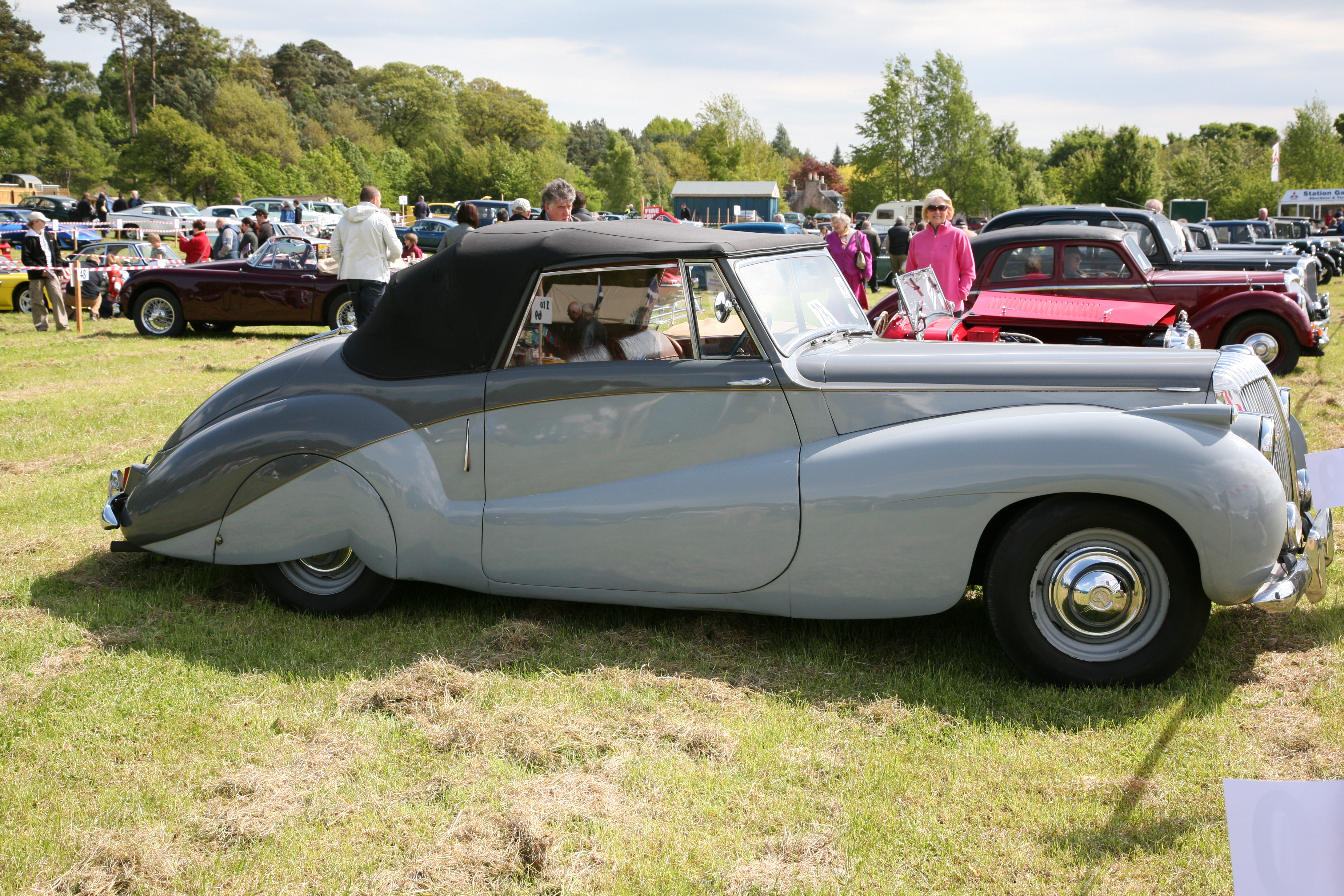 Daimler Special Sports by Barker 1952